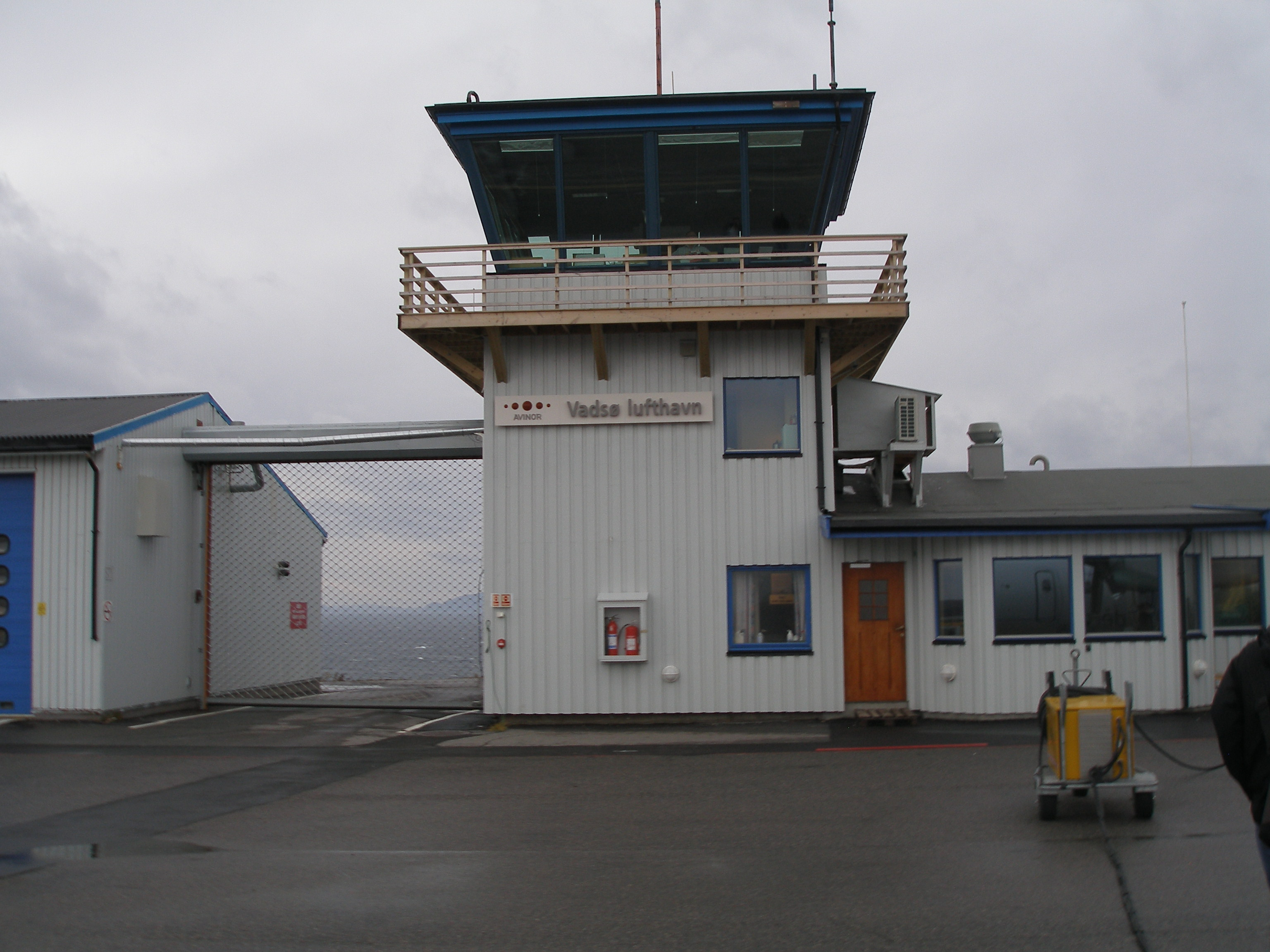 The control tower at Vadsø Airport, Norway